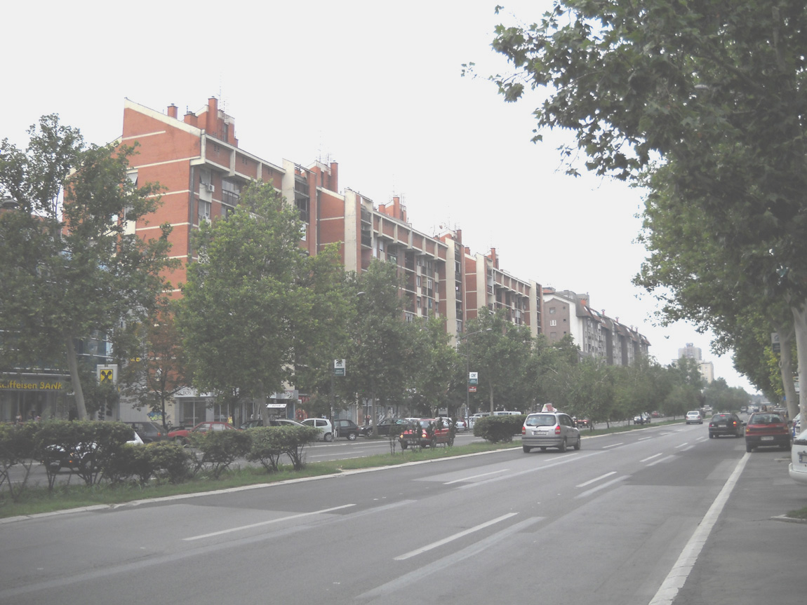 Sajmište neighborhood and Liberation boulevard in Novi Sad.